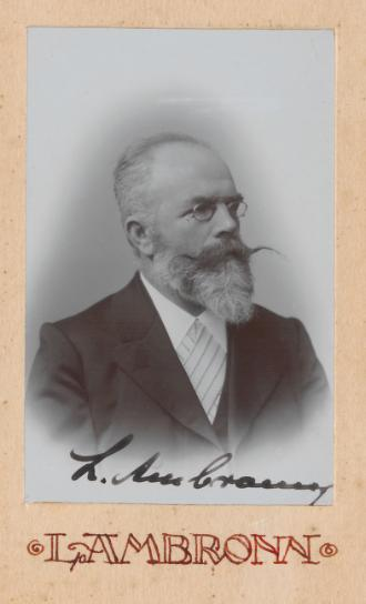 German astronomer Leopold Ambronn